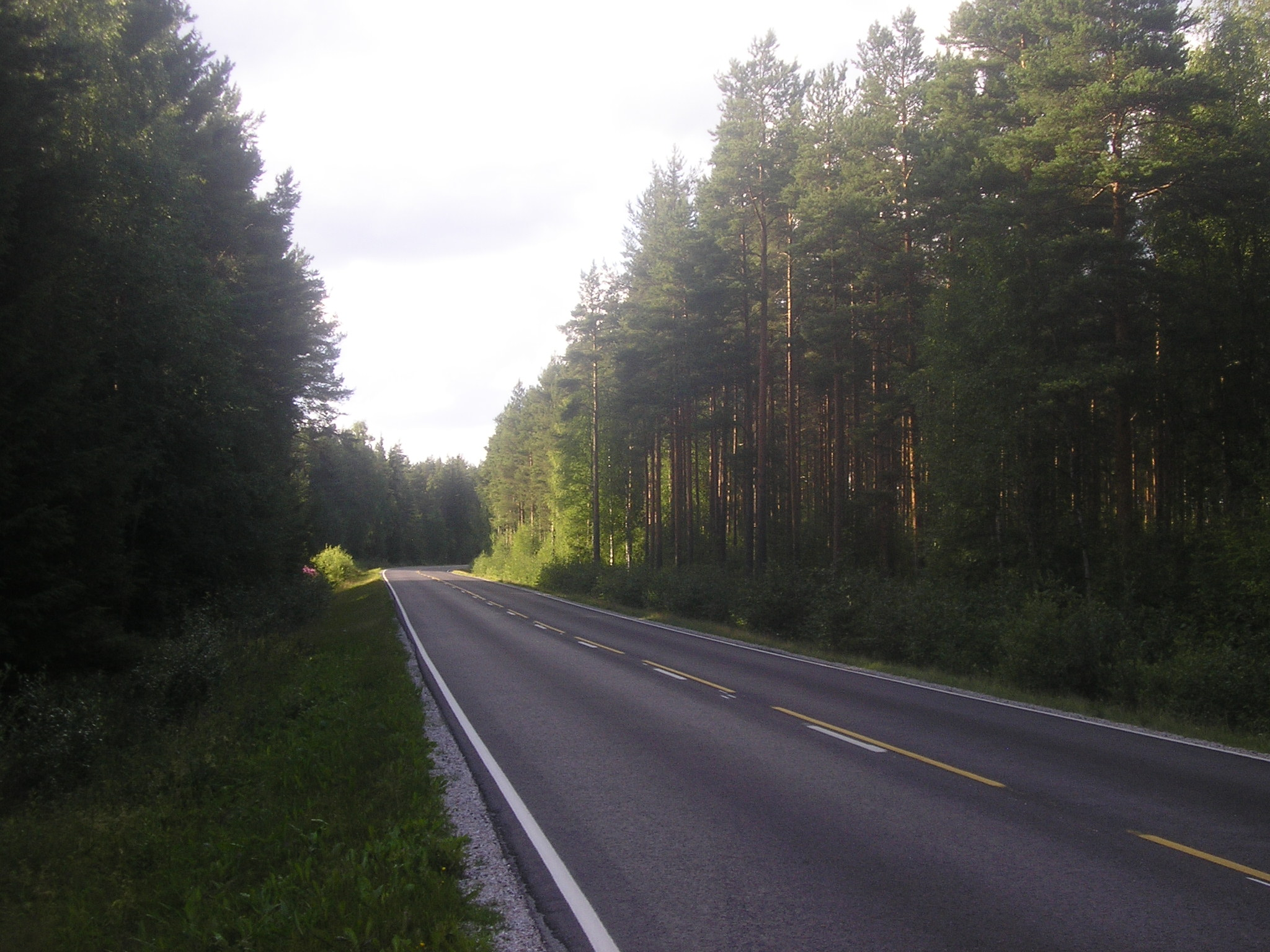 Main Road 63 in Evijärvi, Finland towards Kaustinen.